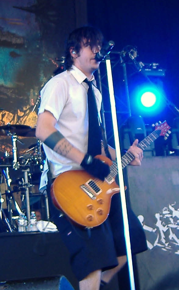 Adam Gontier - lead singer and guitarist of Three Days Grace.